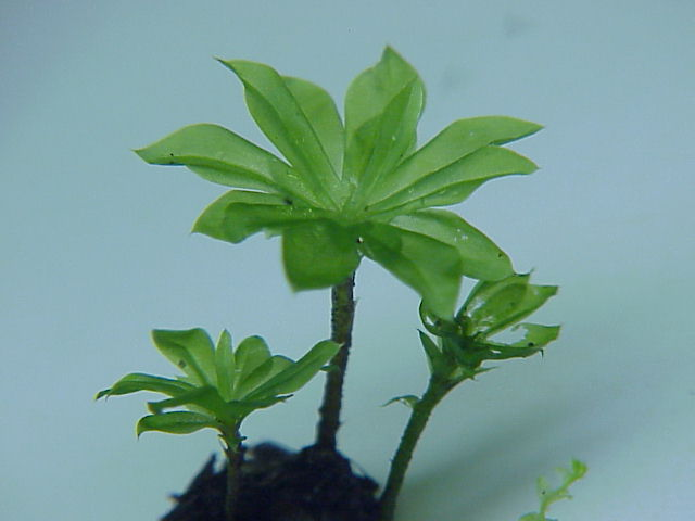 Species: Rhodobryum roseum Family: ' Image No. 1